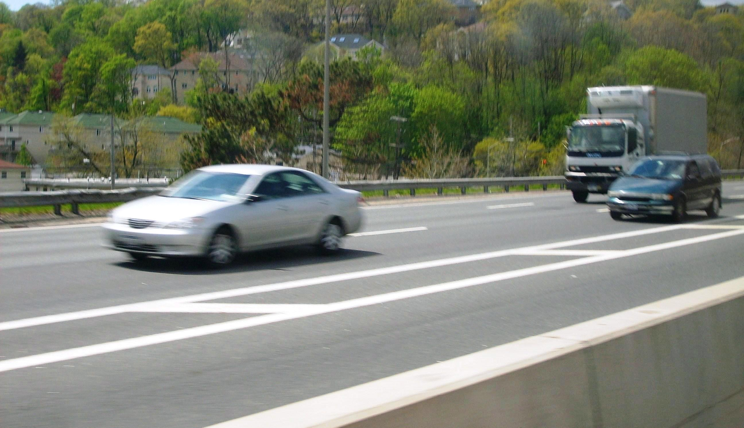 Took the picture myself on the way back from a field trip to the New York Aquarium. This section of the expressway is near the Todt Hill Interchange. The bus that I was in was travelling Westbound on I-278 towards the exit for Bayonne Bridge to New Jersey. The vehicles shown are travelling east towards Brooklyn. Cropped a lot by Ali'i on 15:30, 10 June 2008 (UTC).